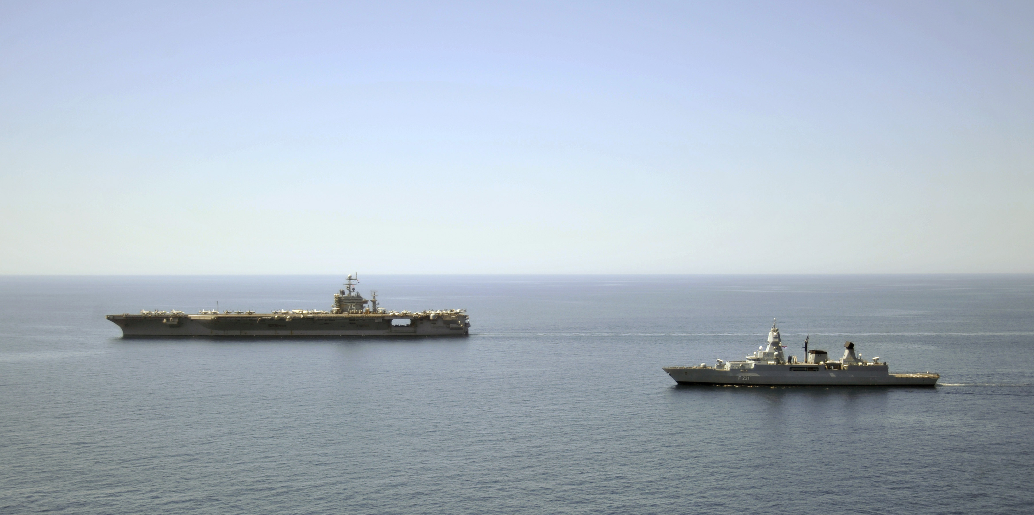 MEDITERRANEAN SEA (June 5, 2010) The German navy air defense frigate FGS Hessen (F221), right, cruises alongside the Nimitz-class aircraft carrier USS Harry S. Truman (CVN 75) as part of interoperability operations. Harry S. Truman is deployed as part of the Harry S. Truman Carrier Strike Group supporting maritime security operations and theater security cooperation efforts in the U.S. 5th and 6th Fleet areas of responsibility. (U.S. Navy photo by Mass Communication Specialist 2nd Kilho Park/Released)